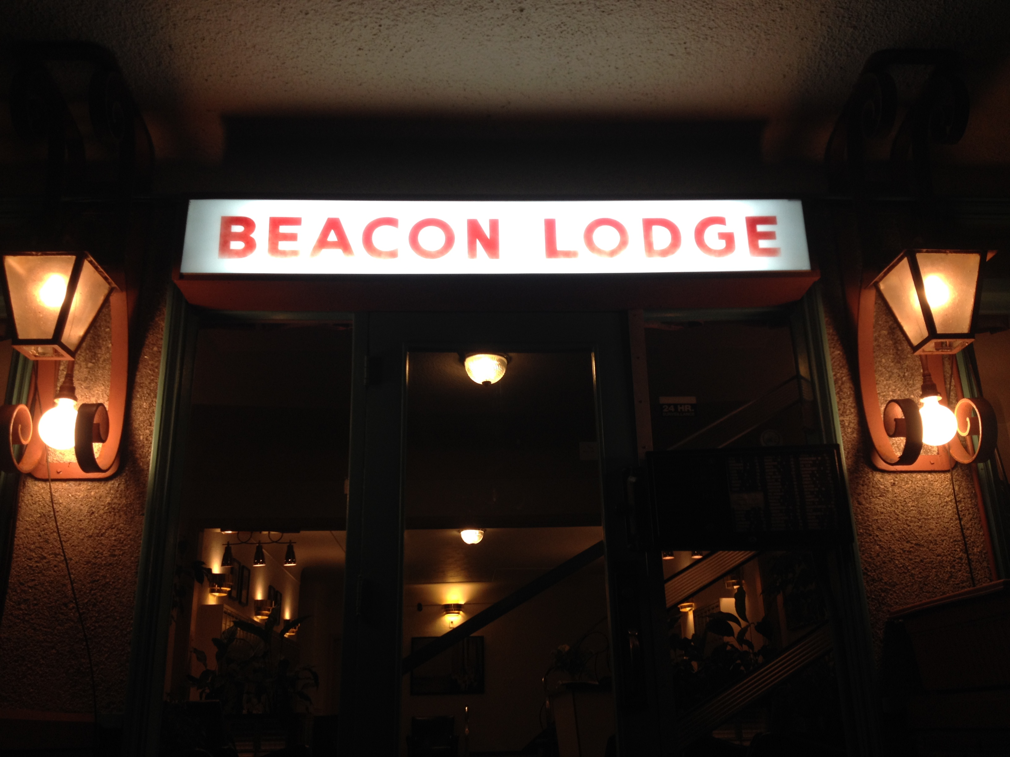 The Beacon Lodge sign illuminated at night.